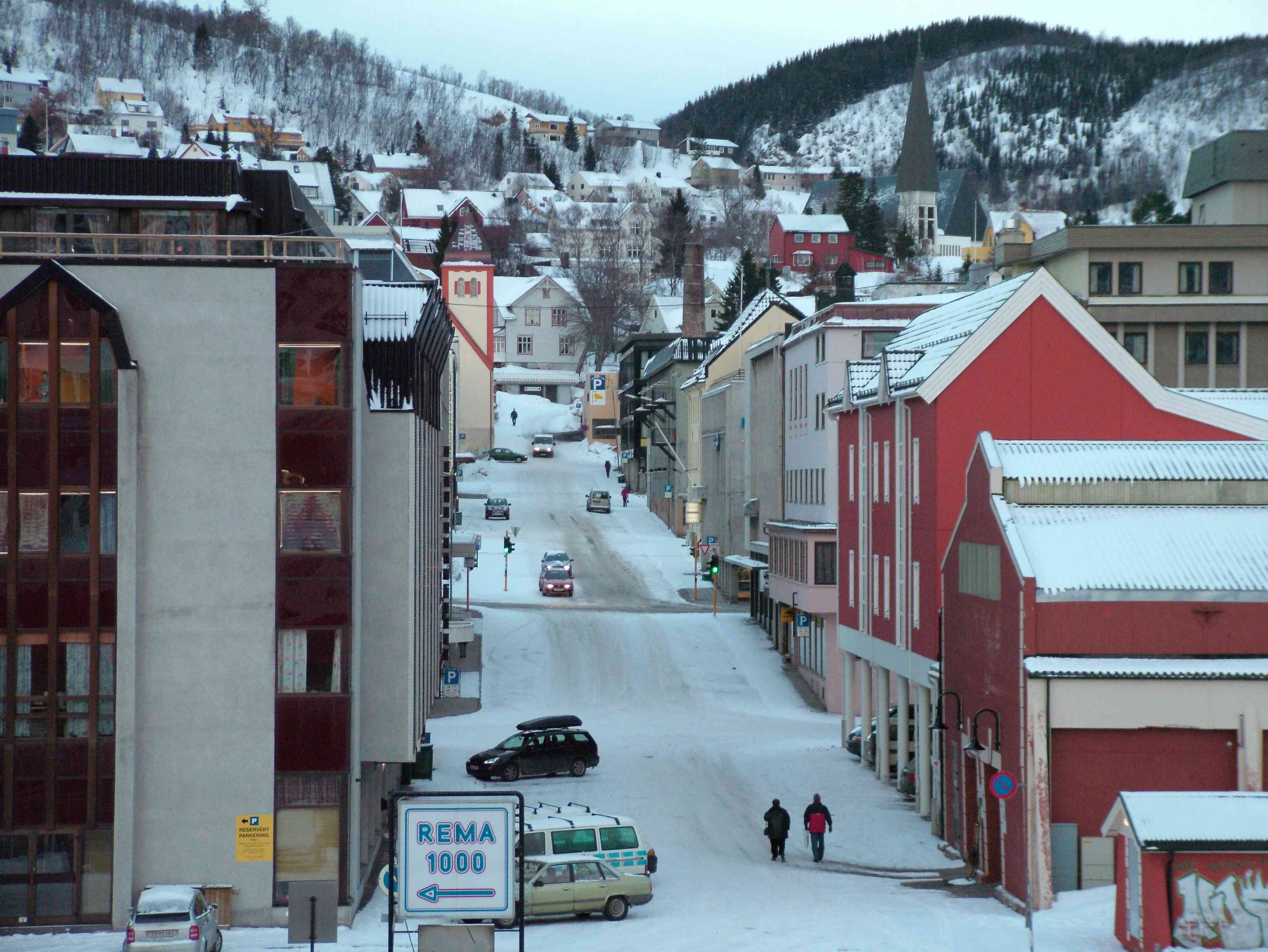 Harstad, Norway seen from a Hurtigruten ship